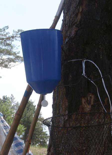 Походный рукомойник